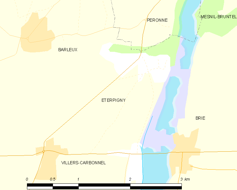 Map of French municipality Éterpigny